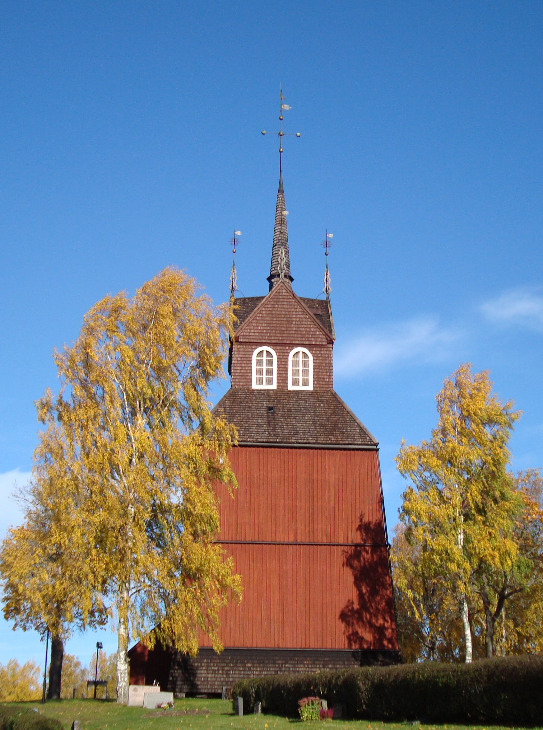 Belltower of church of Möklinta, Sala municipality, Sweden